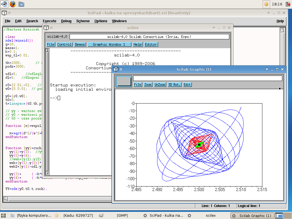 Scilab under Ubuntu 7.04 Author: BArtosz Kosiorek